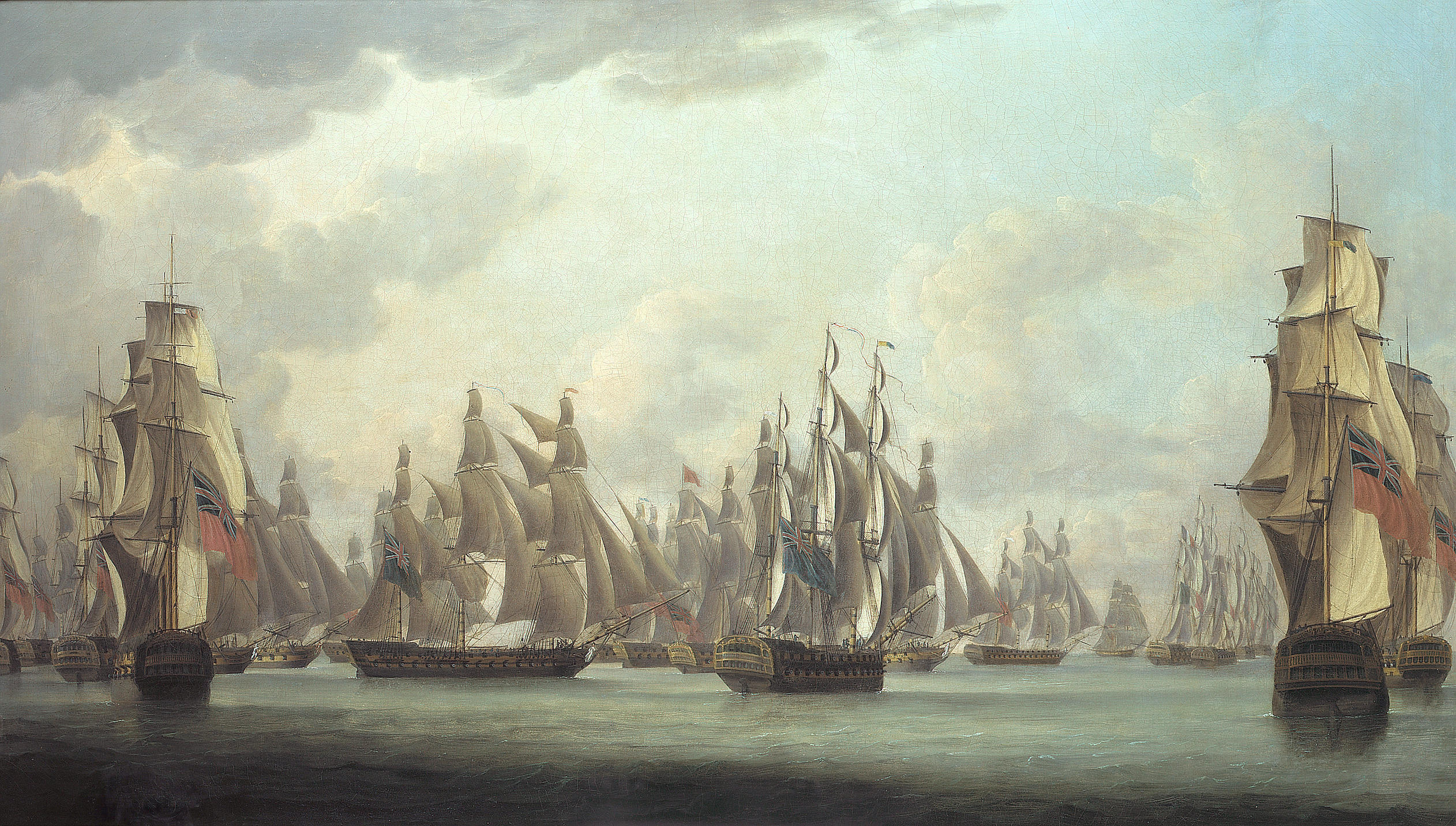 The retreat of Rear Admiral Linois's Squadron consisting of the 'Marengo' of 84 guns, the 'Belle Poule' and 'Semillante' of 44 guns each, a corvette of 28 guns and a Batavian brig of 18 guns from a fleet of 16 of the East India Company ships after the action off Pulo Aor in the China Seas on the 15th. February 1804